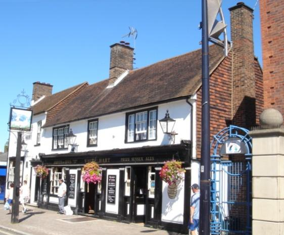 The White Hart Hotel, High Street, Crawley, West Sussex, England. 18th-century inn, extended in 1830s. Listed at Grade II by English Heritage (ref #363348)